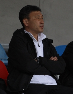 Dmitriy Ogai